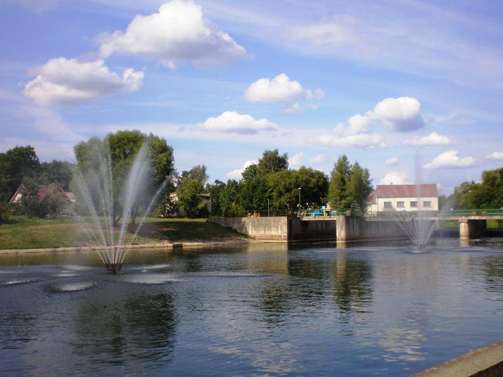 Šventoji river in Anykščiai, Lithuania